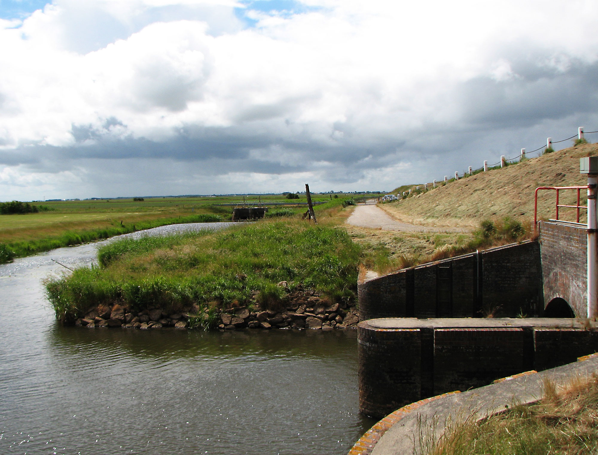 Canal in Ballum, Denmark